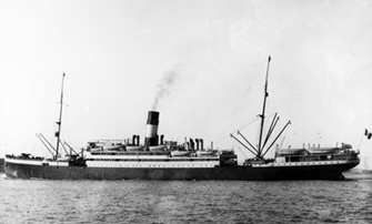 Italian 8,282 GRT passenger steamship Taormina, built by D&W Henderson in Glasgow in 1908 and scrapped in 1929